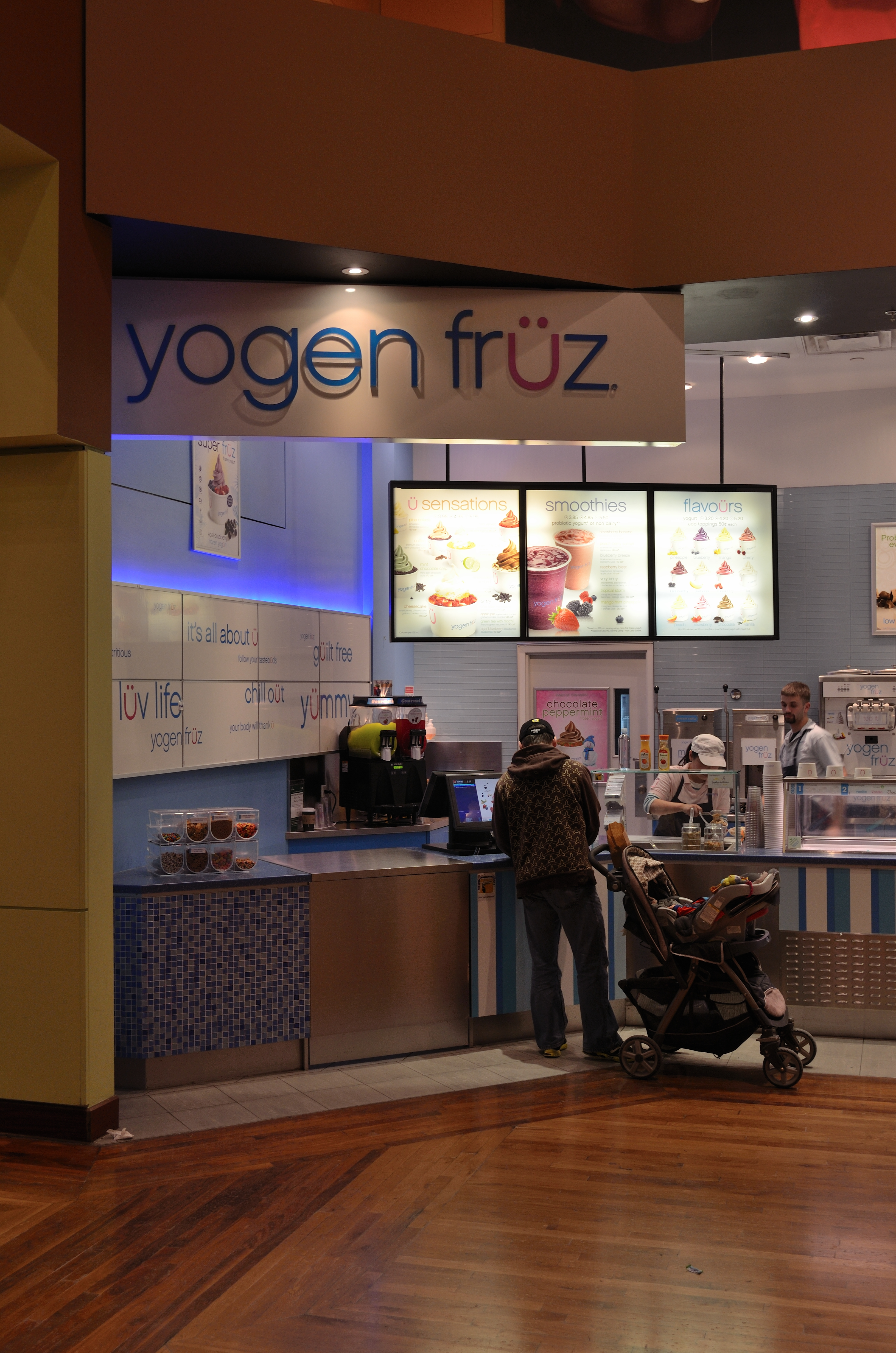 Yogen fruz